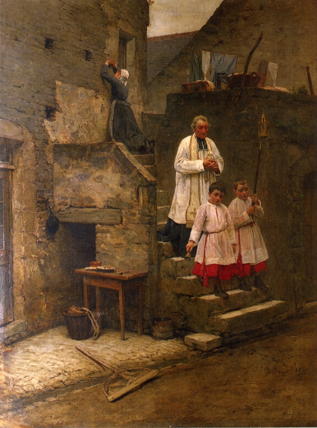 The_Last_Sacraments